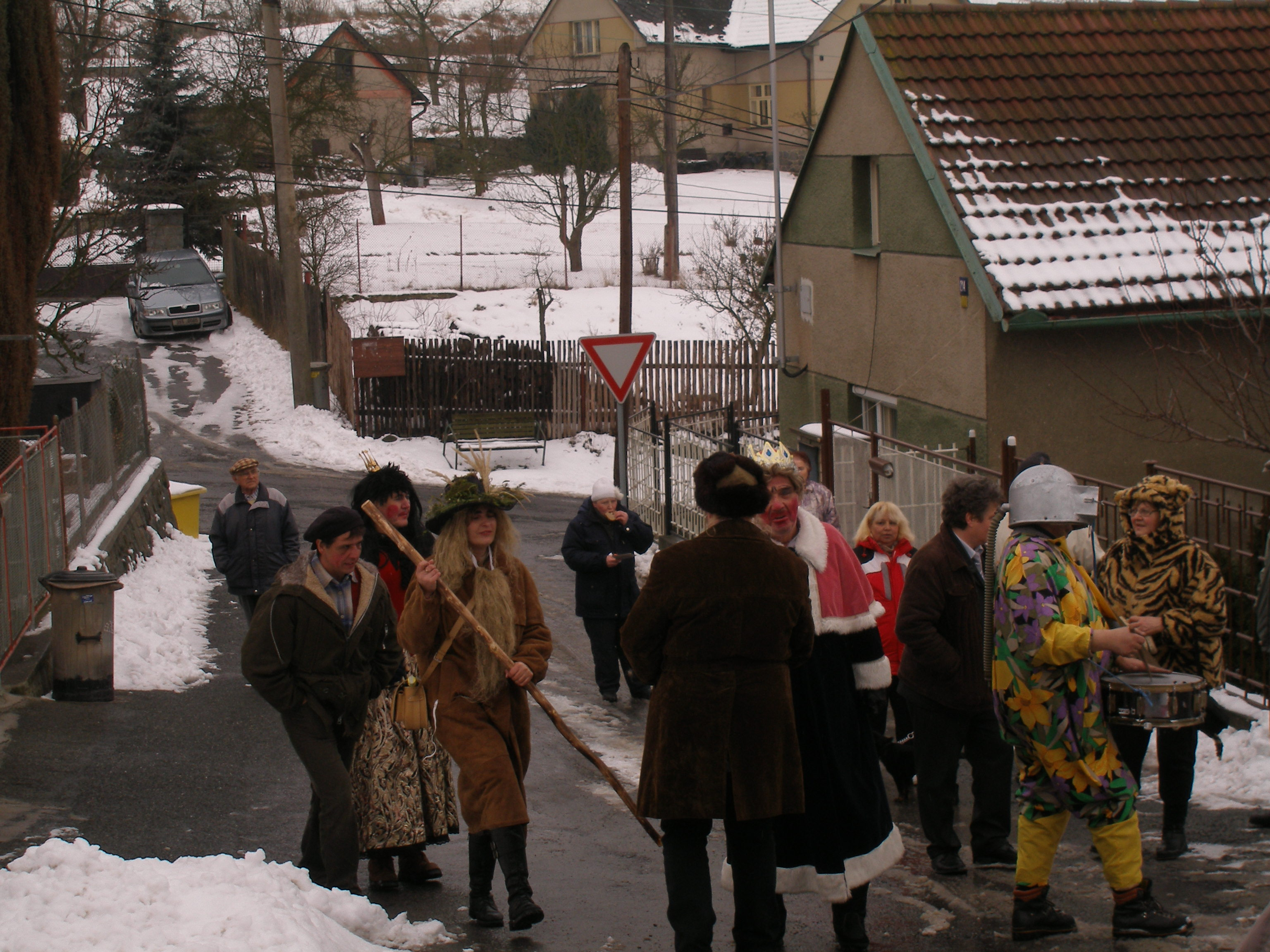 Mardi Gras 2009 at "Na Vyšehradě" Street on border between Nový Knín and Starý Knín